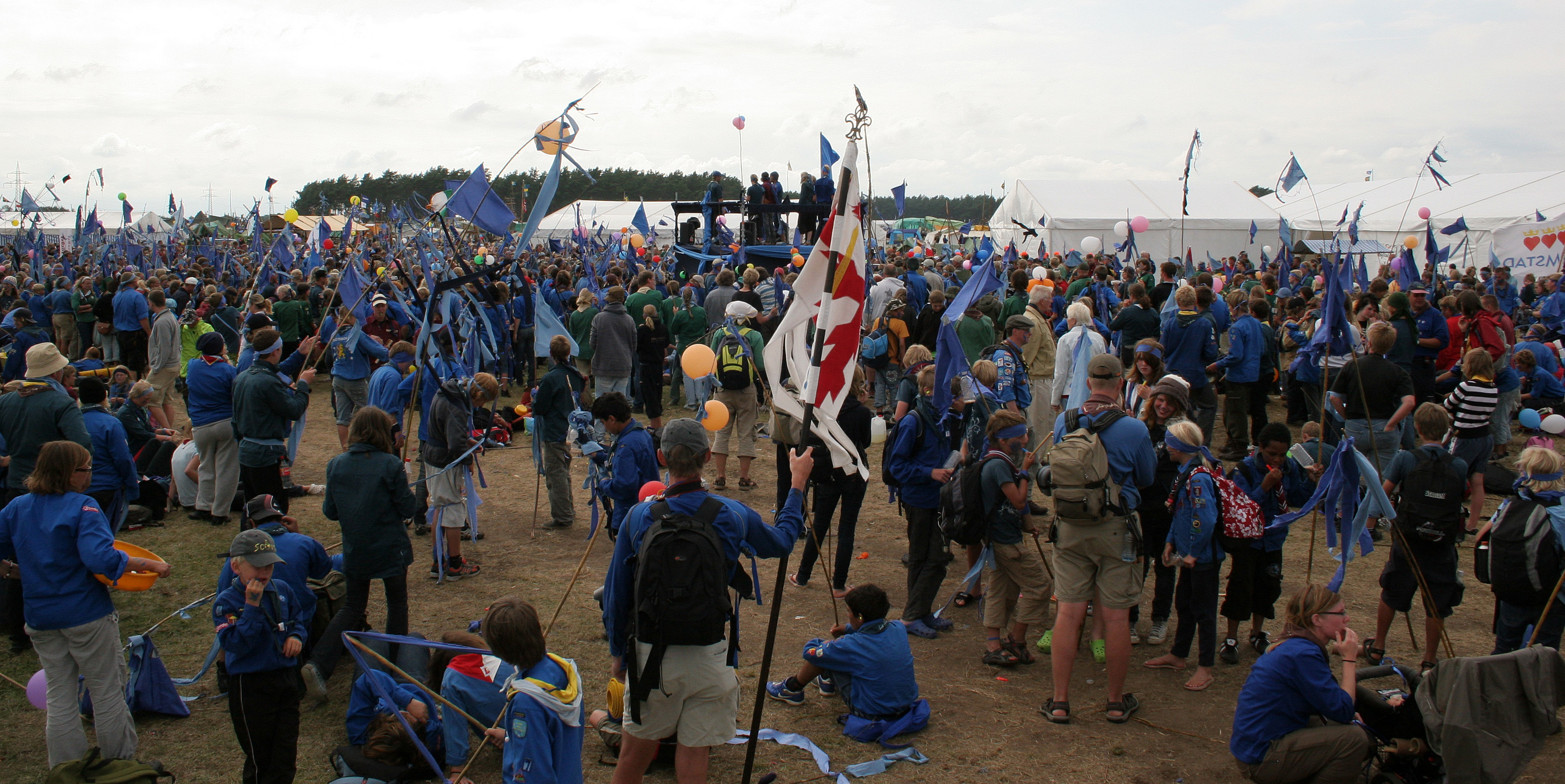 Blue section of Jiingijamborii national jamboree in Sweden preparing for the celebration of 100 years of scouting.